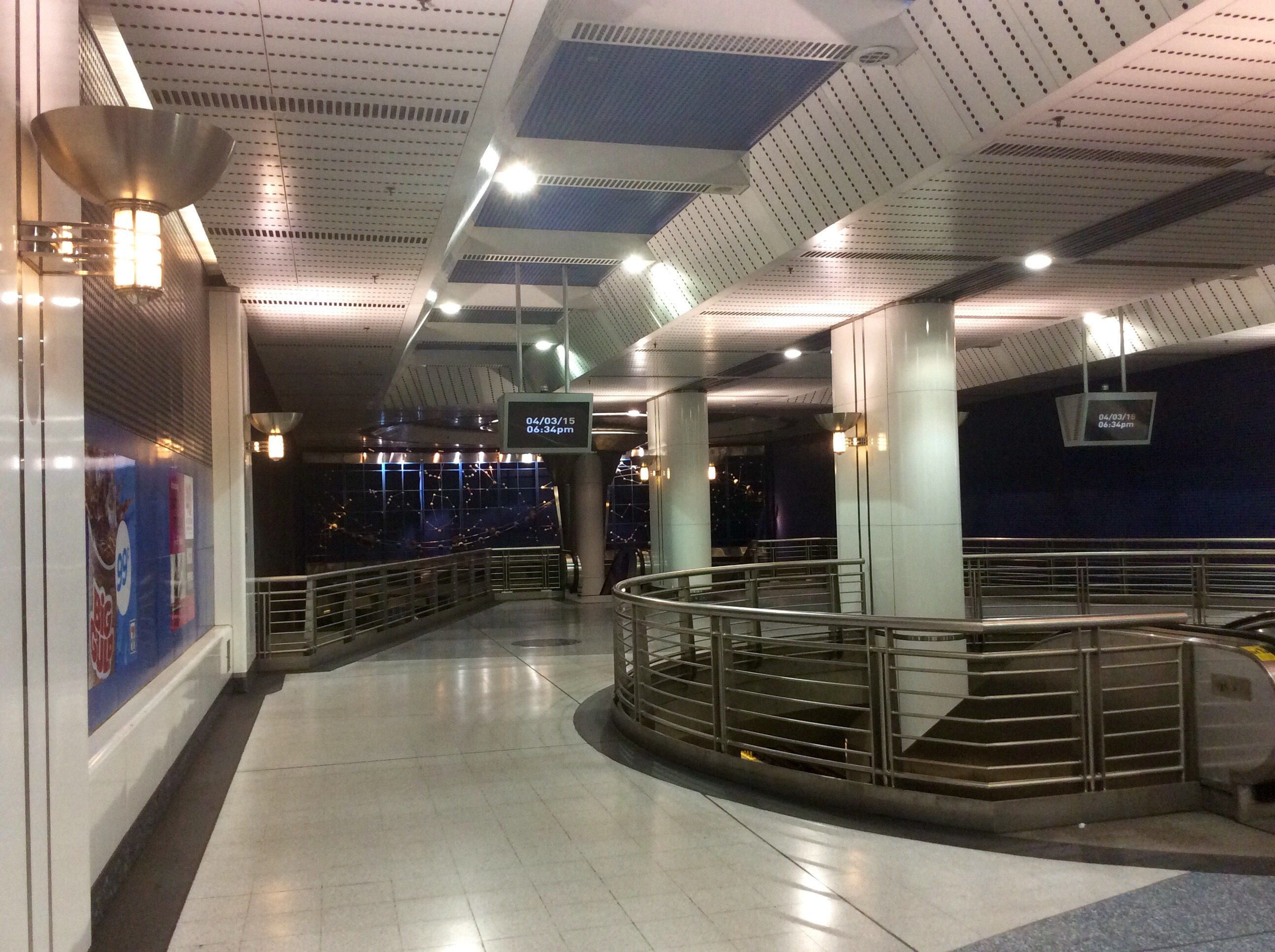 The upper floor view view of Vermont/Santa Monica Station.